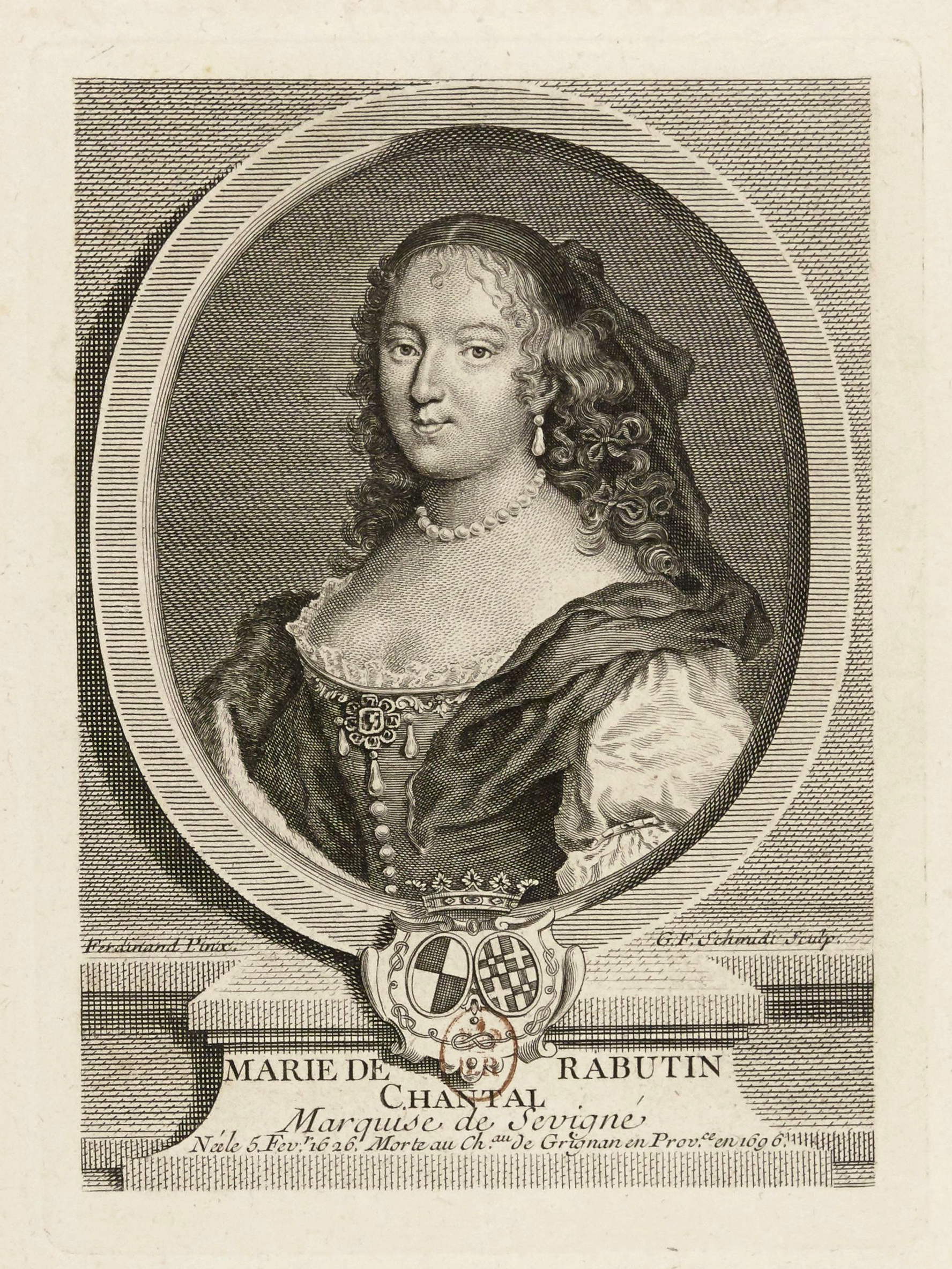 Madame de Sévigné (1626-1696), french writer.